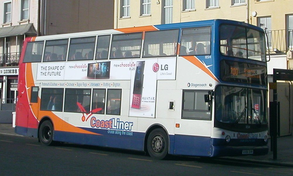 Stagecoach in the South Downs 18514 (GX06 DXM), a Dennis Trident/Alexander Dennis ALX400. It is seen standing on Marine Parade, Worthing, West Sussex, England. It is on Coastliner route 700, for which it carries route branding.